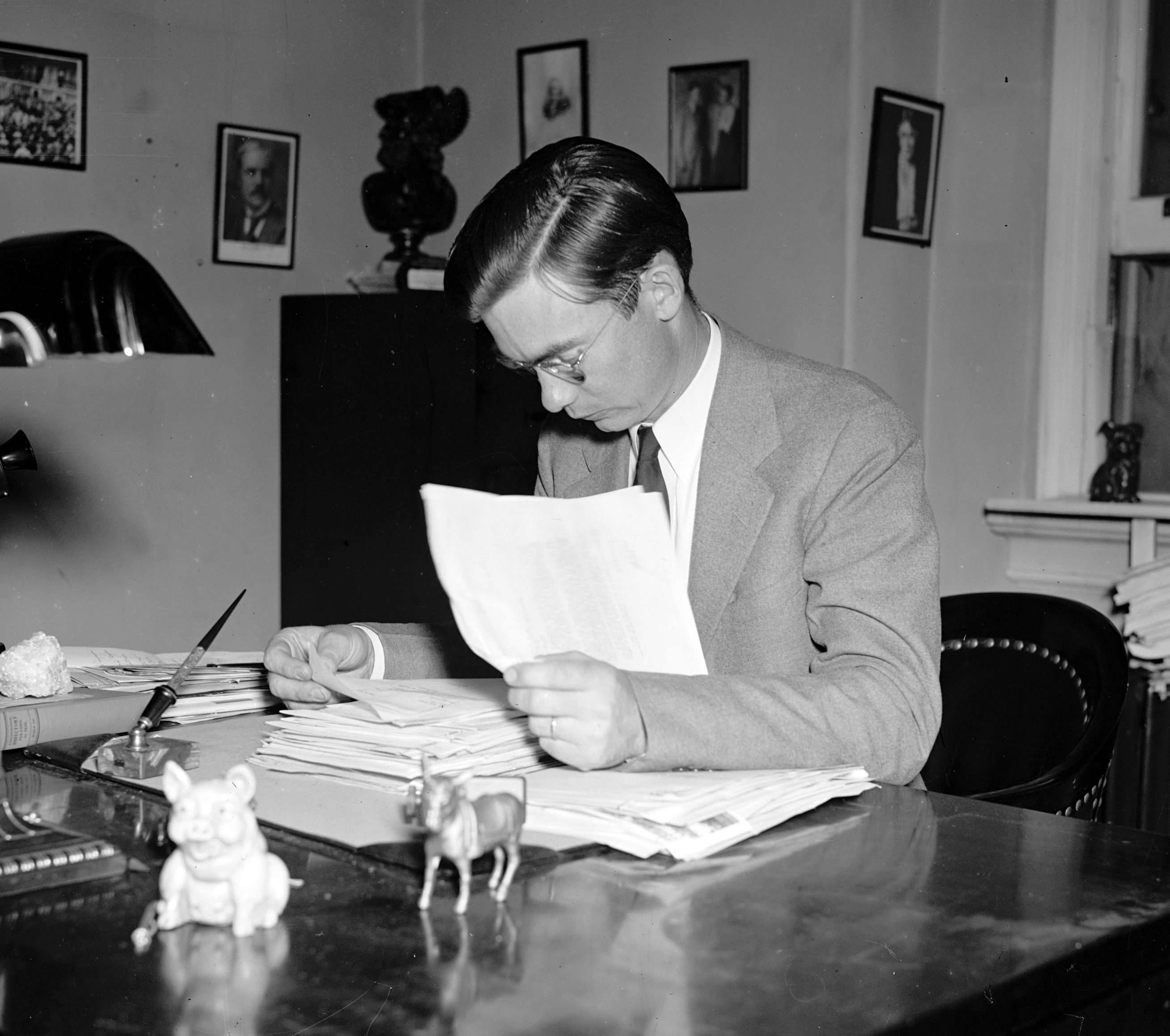 Otha Wearin, US Representative from Iowa